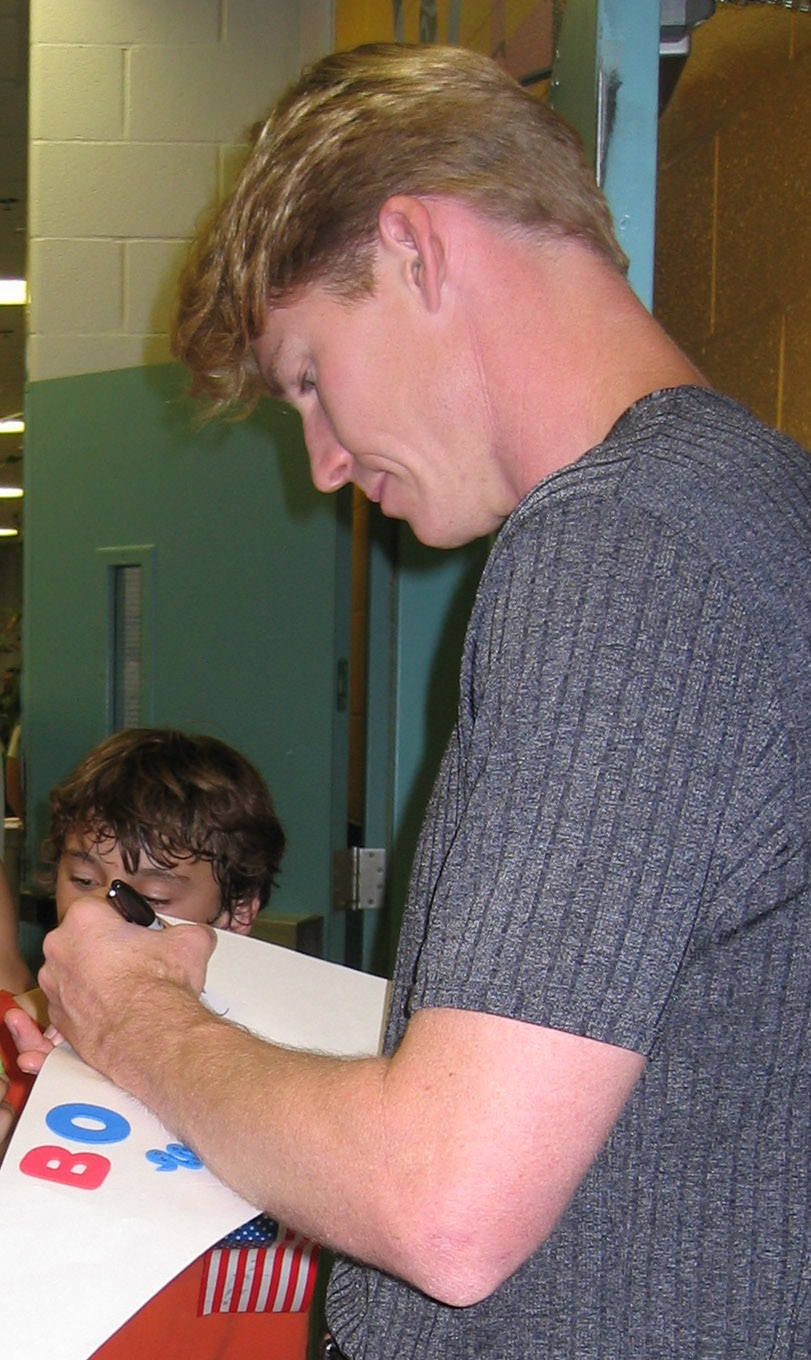 Joshua ("Josh") Clark Davis (born September 1, 1972 in San Antonio, Texas) is a former freestyle swimmer from the United States. He is seen here giving autographs to children.